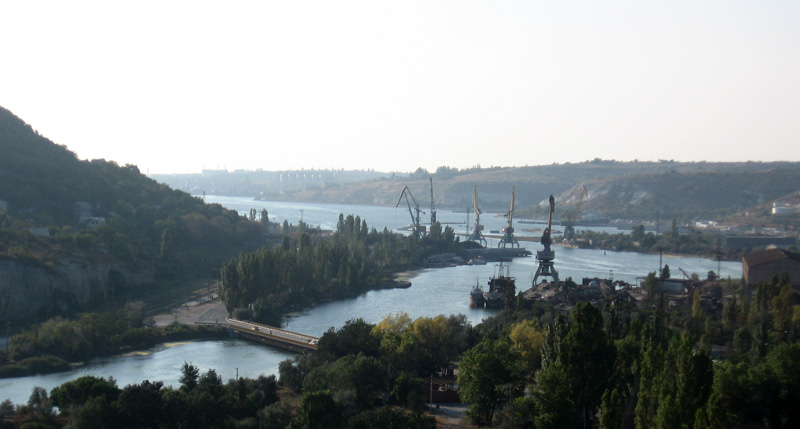 The mouth of the Chernaya River, Sevastopol